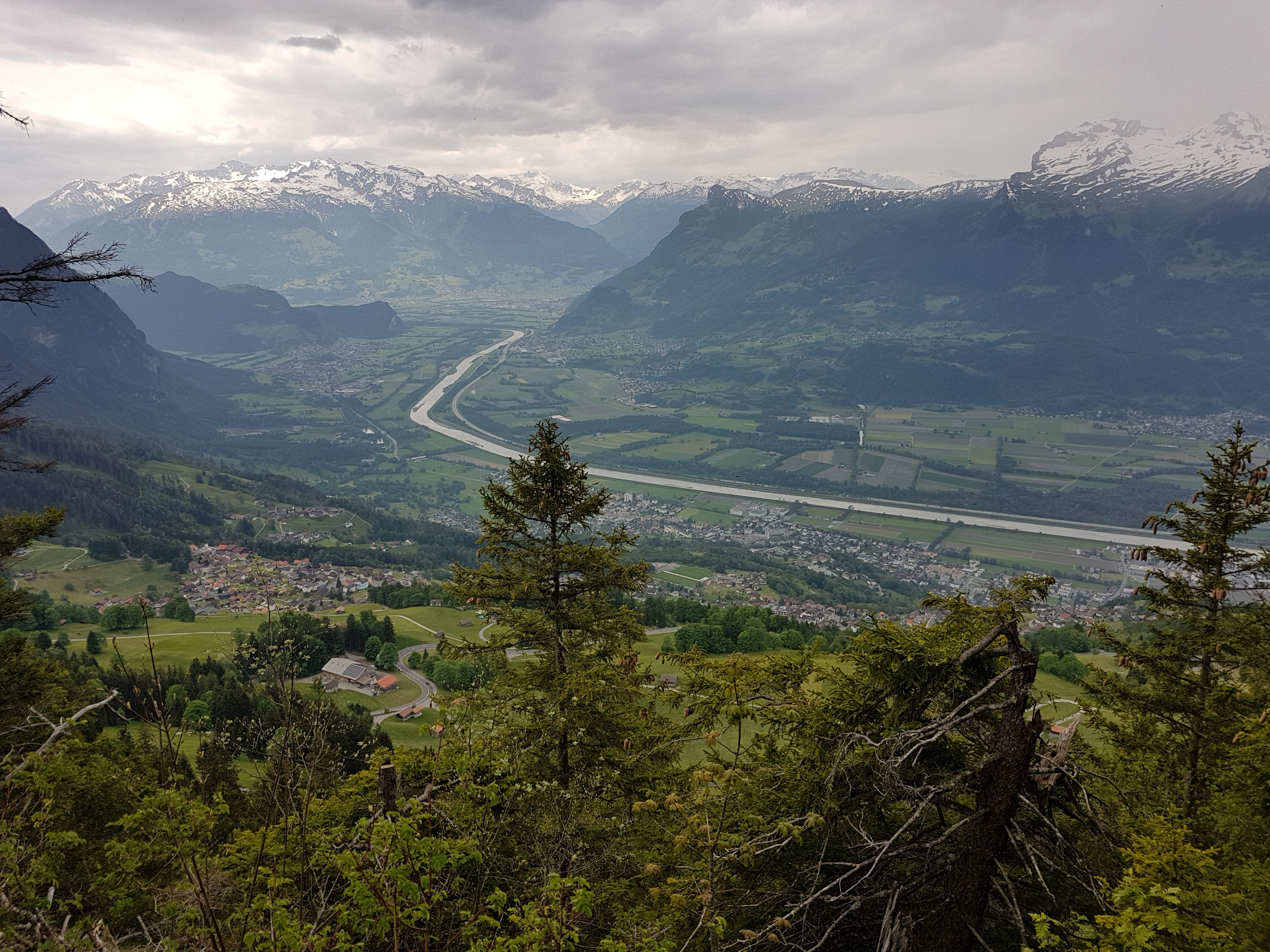 View from Alp Gnalp in the Principality of Liechtenstein to Balzers, Trübbach, Sargans and the Alpine Rhine Valley.